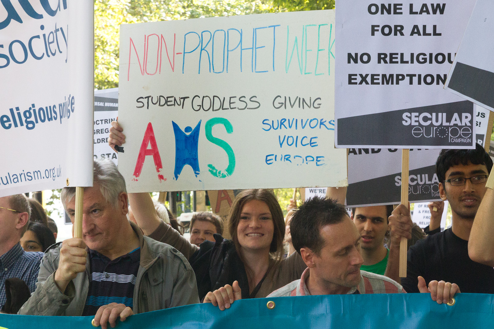 Nicola Young Jackson represents the AHS at the 2012 March for Secular Europe in London.